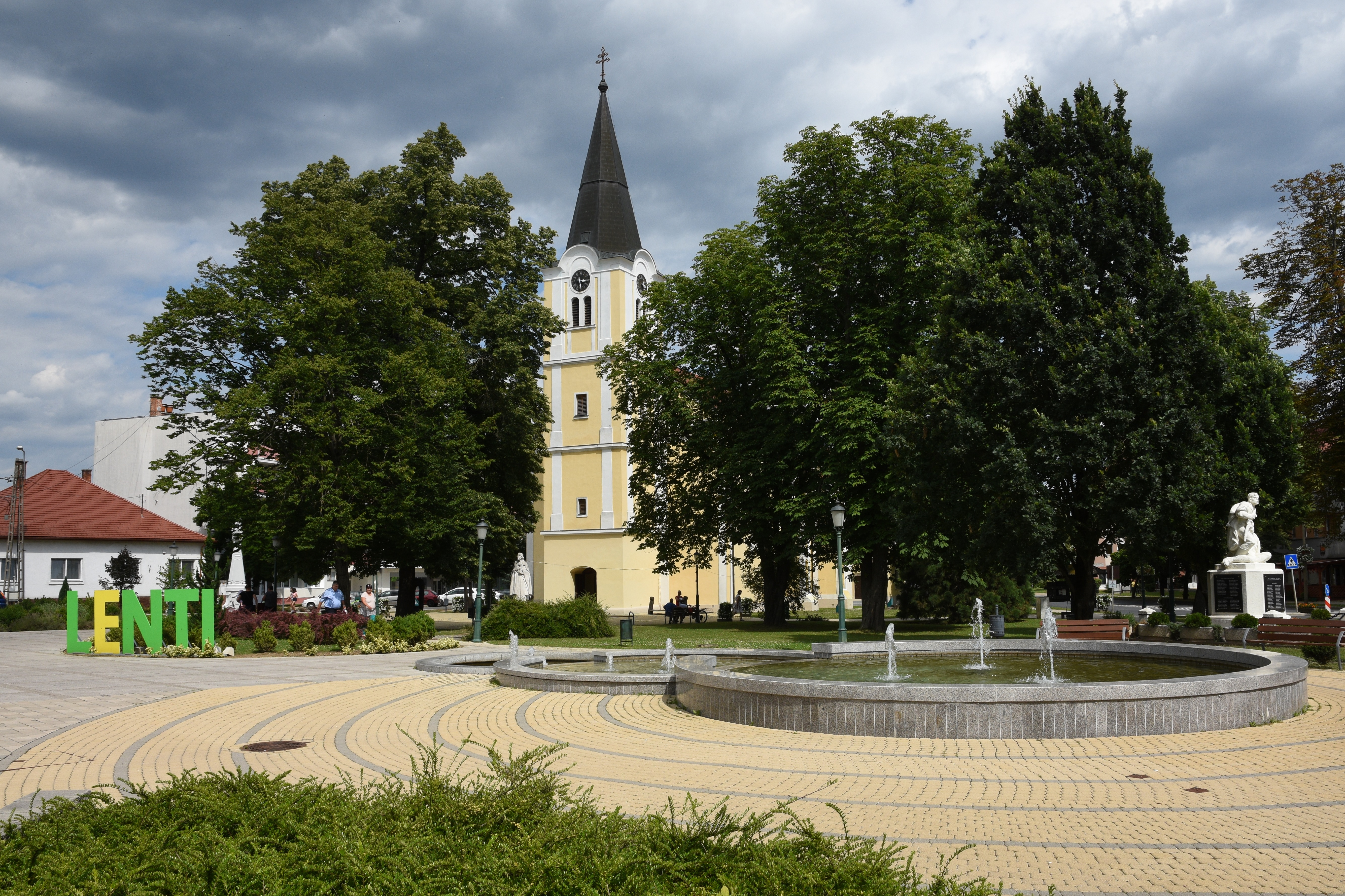 Lenti